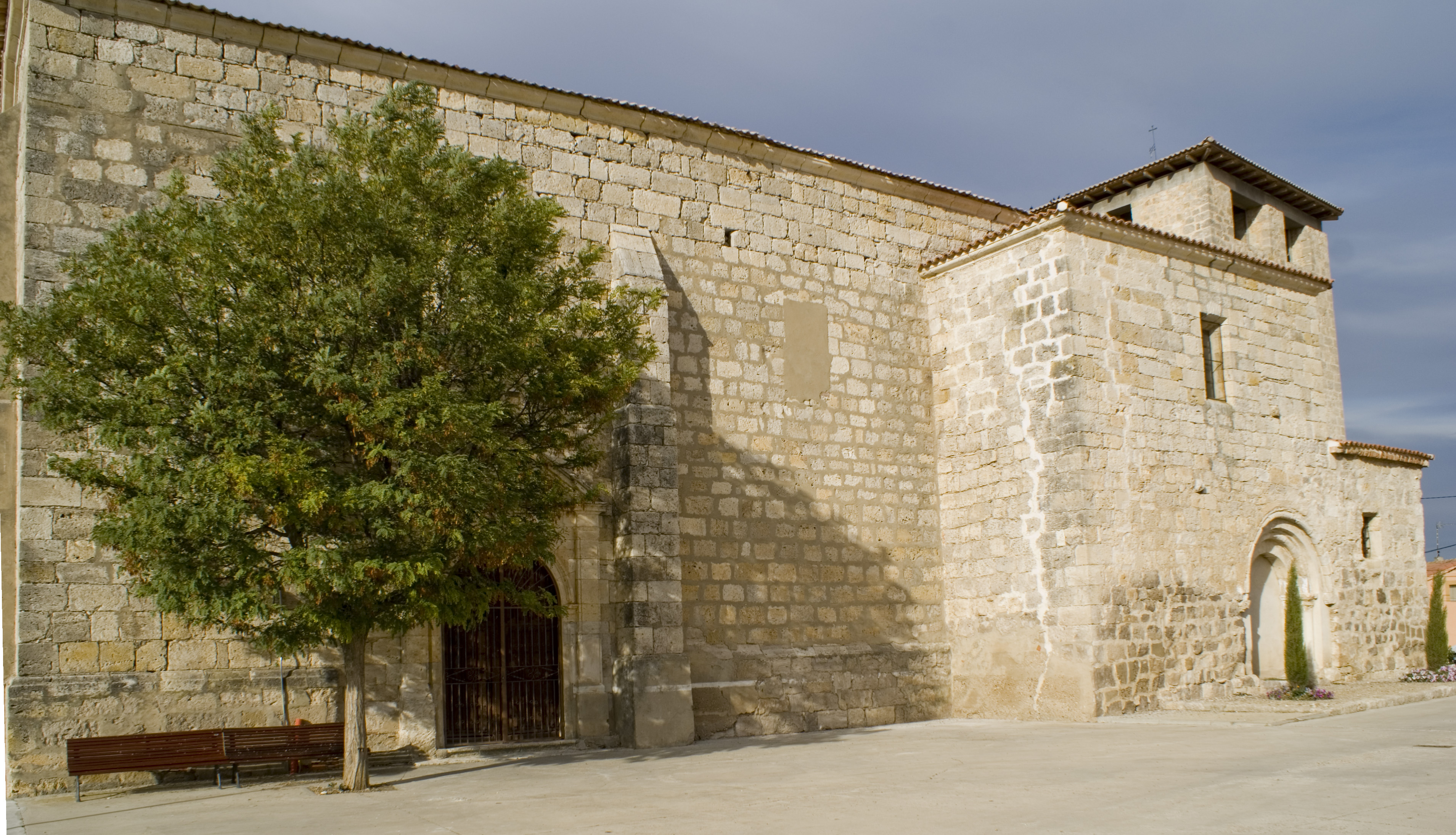 Church of Our Lady of Assumption in Padilla de Duero, Valladolid, Spain.